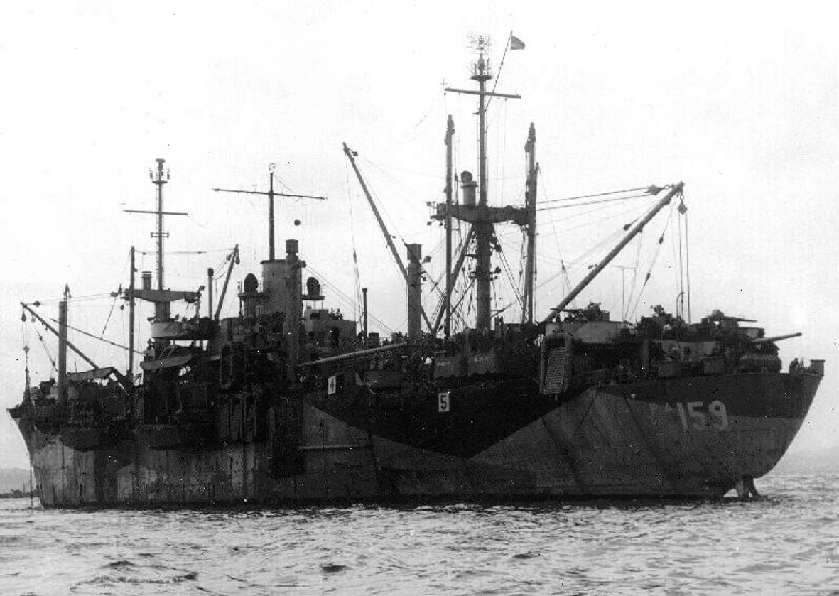 USS Darke (APA-159), lies at anchor in Tokyo Bay, disembarking troops into LCVPs alongside, circa 2-4 September 1945.